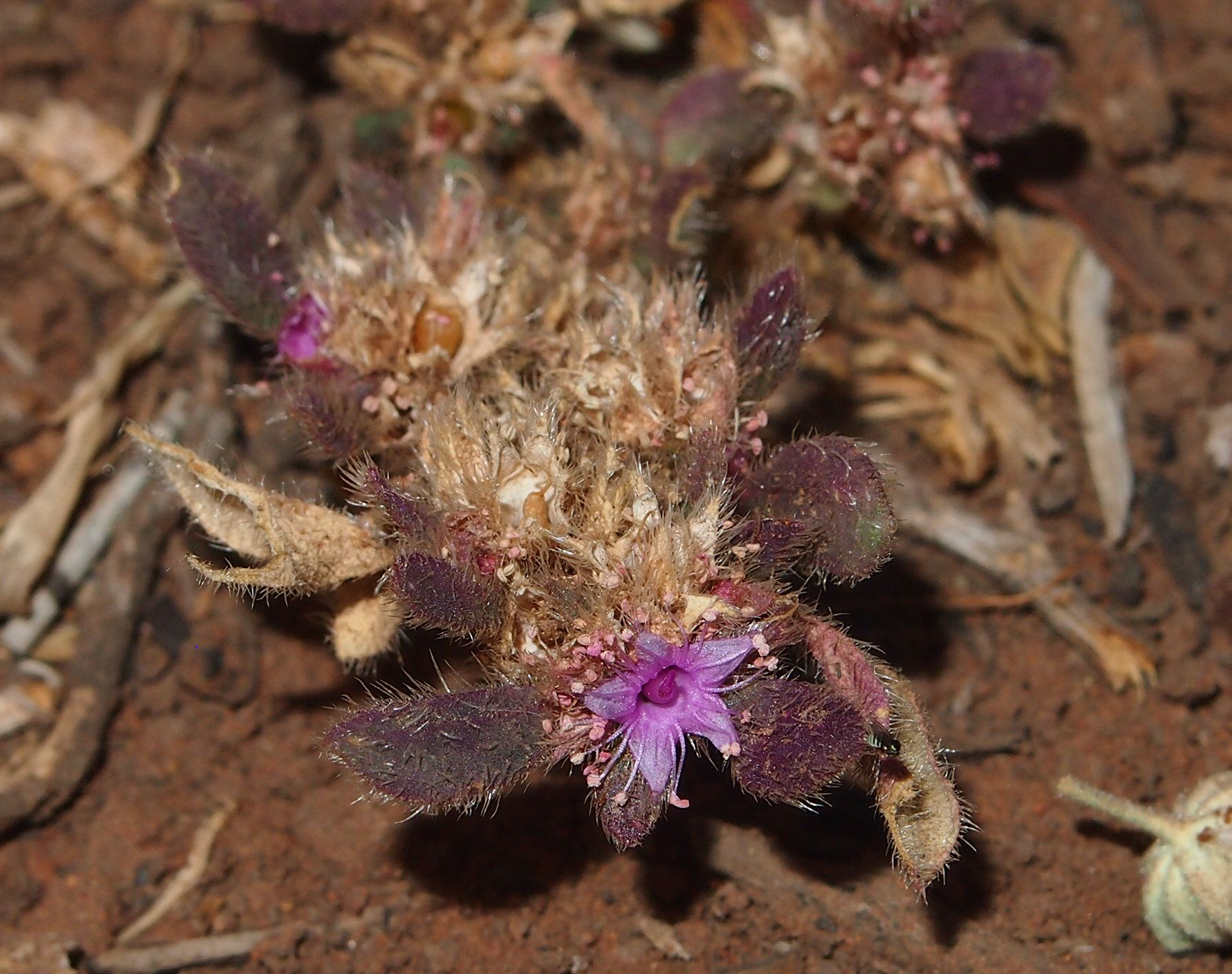 Trianthema pilosa